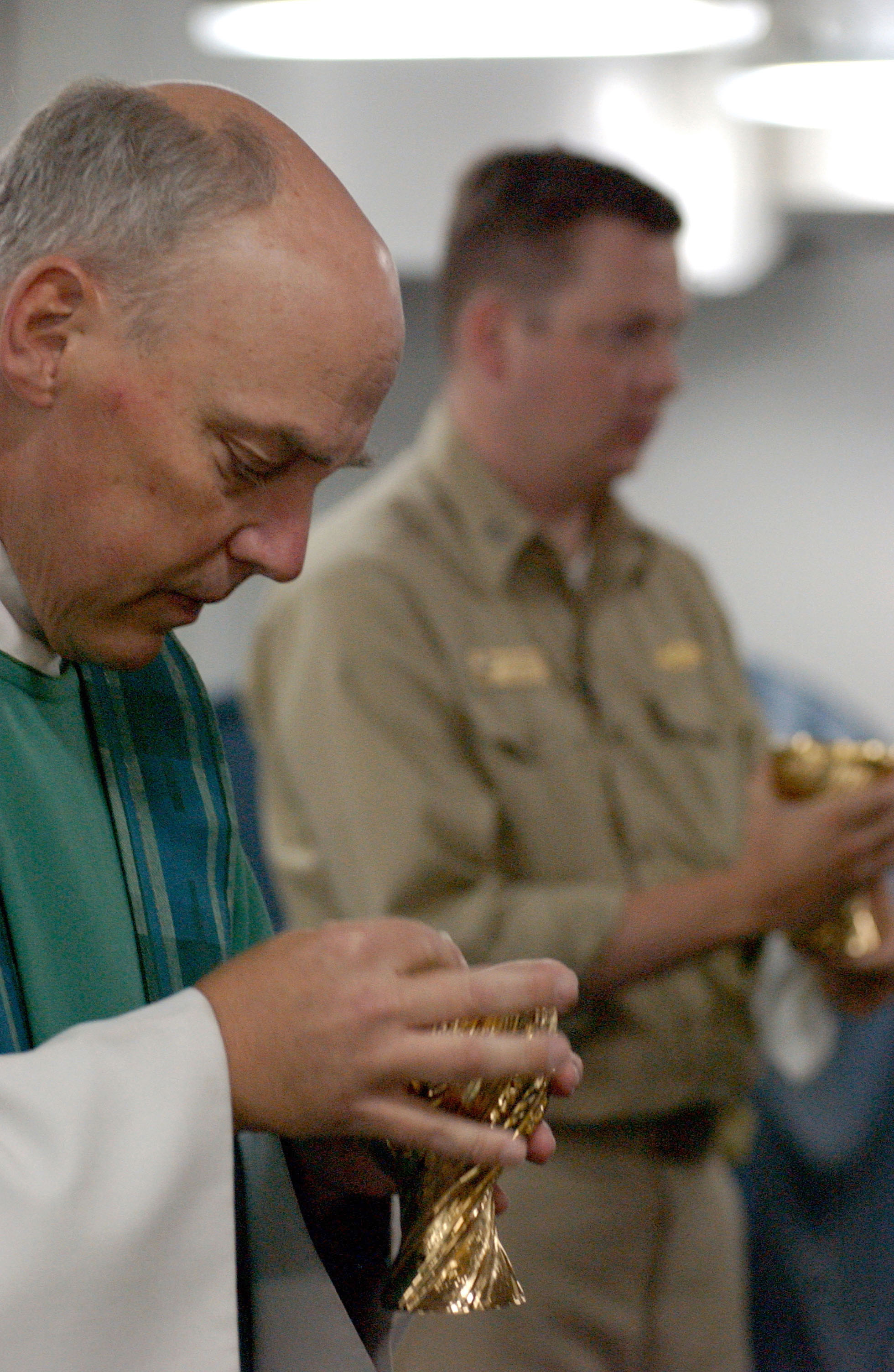 Atlantic Ocean (Jul. 27, 2003) -- Lt. Richard House, Assistant Command Chaplain, (left) and Lt. Chris Chandler offer Holy Communion during the first underway Roman Catholic Mass aboard USS Ronald Reagan (CVN 76). The ship is currently underway off the coast of Virginia conducting Flight Deck Certifications. U.S. Navy photo by Photographer’s Mate 3rd Class Kitt Amaritnant. (RELEASED)